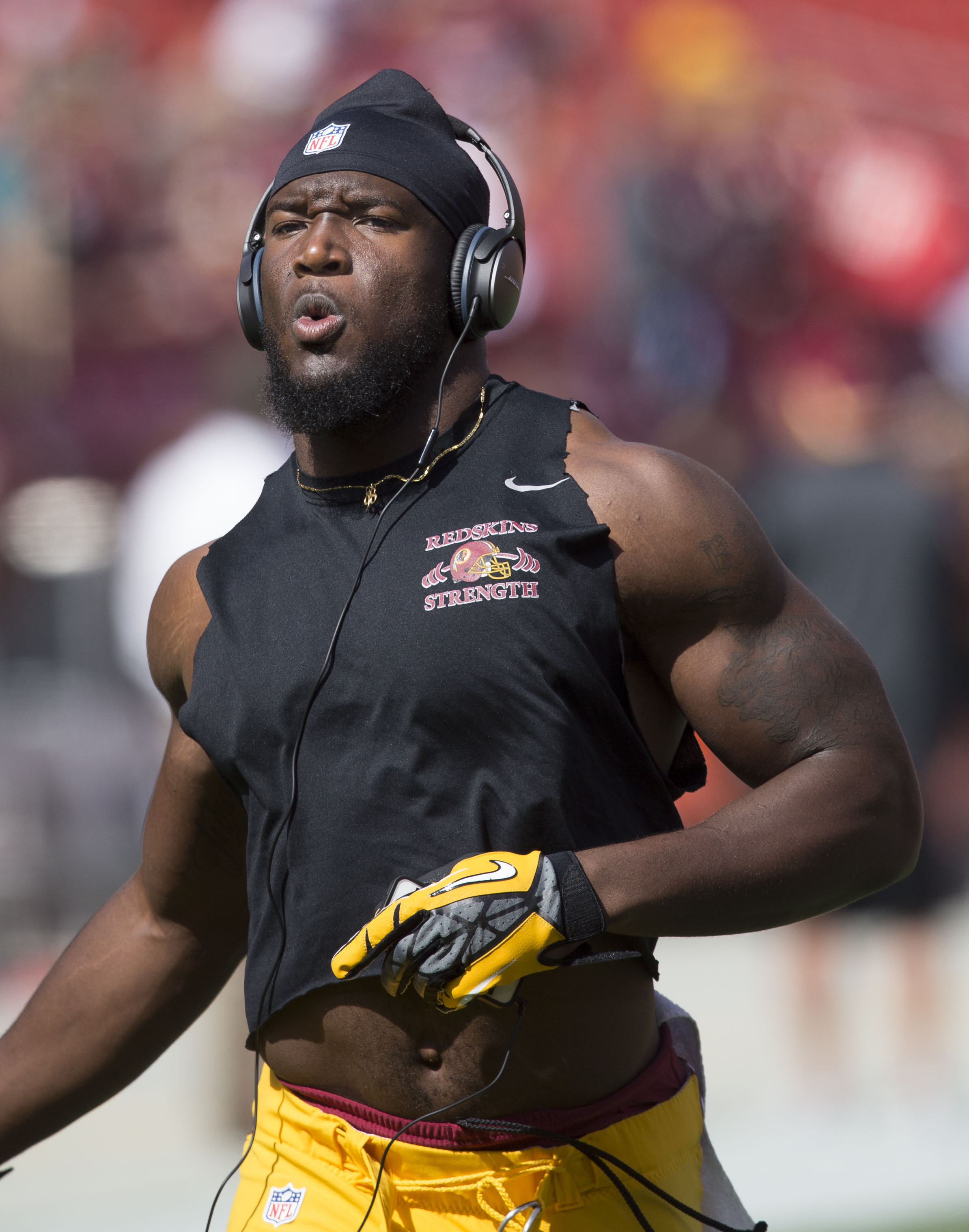 Washington Redskins outside linebacker, Brian Orakpo, in 2014.